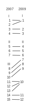 Variants by section between versions 2007 and 2009 of Alice Munro's story "Fiction"